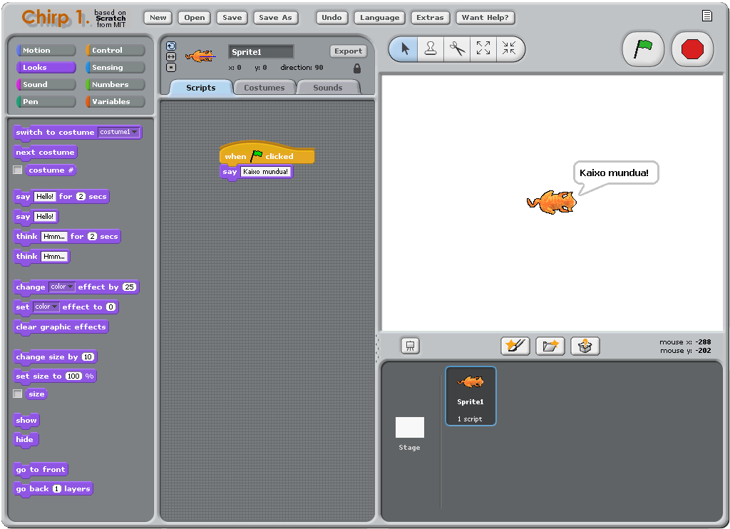 Kaixo mundua (Hello World in Basque) script in Chirp (mod of Scratch from 2008)